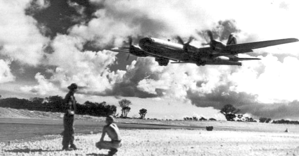 501st Bombardment Group B-29 takeoff Northwest Field Guam